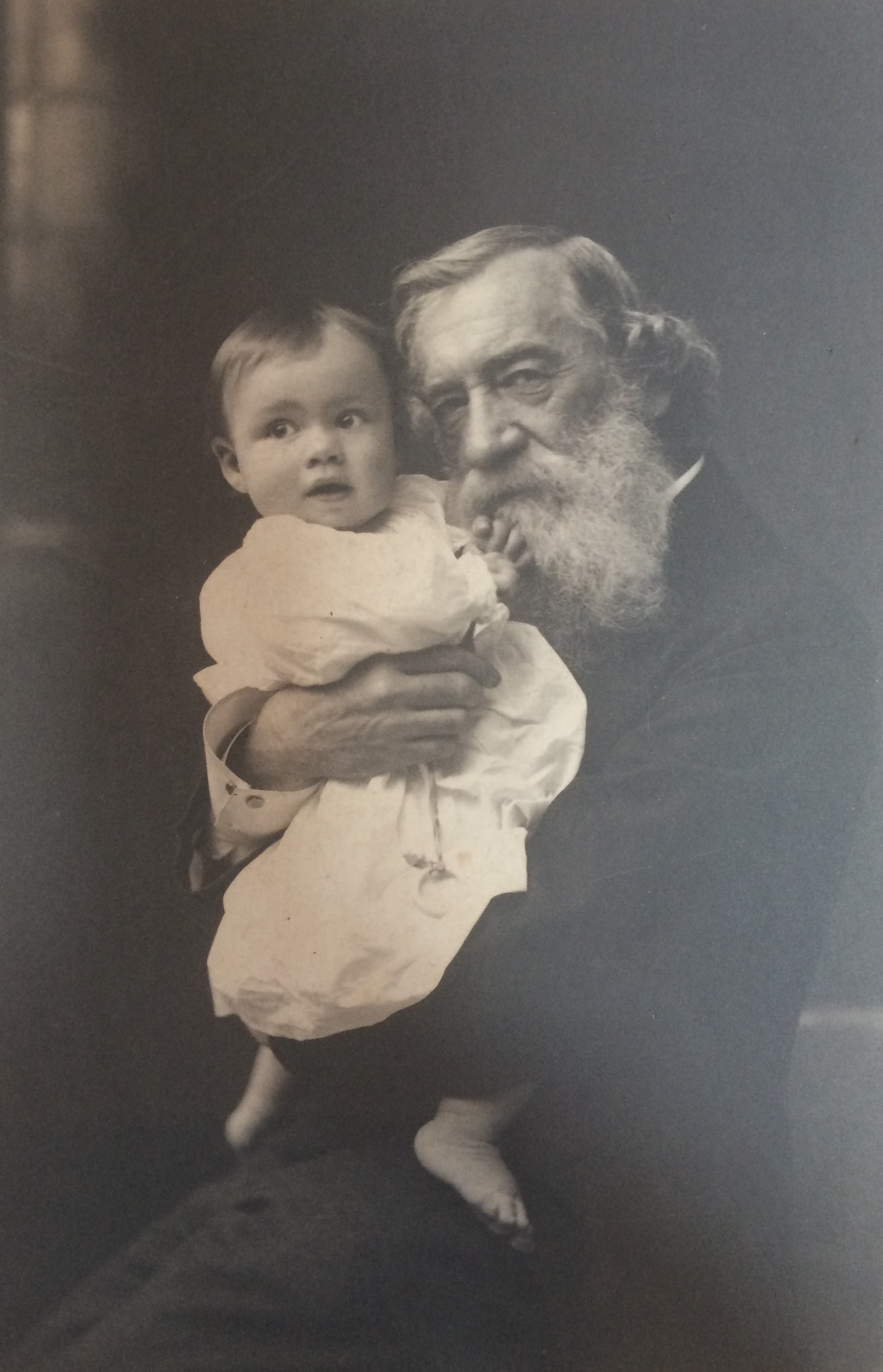 Photo taken c. 1884 of Moncure D. Conway holding an unnamed child.